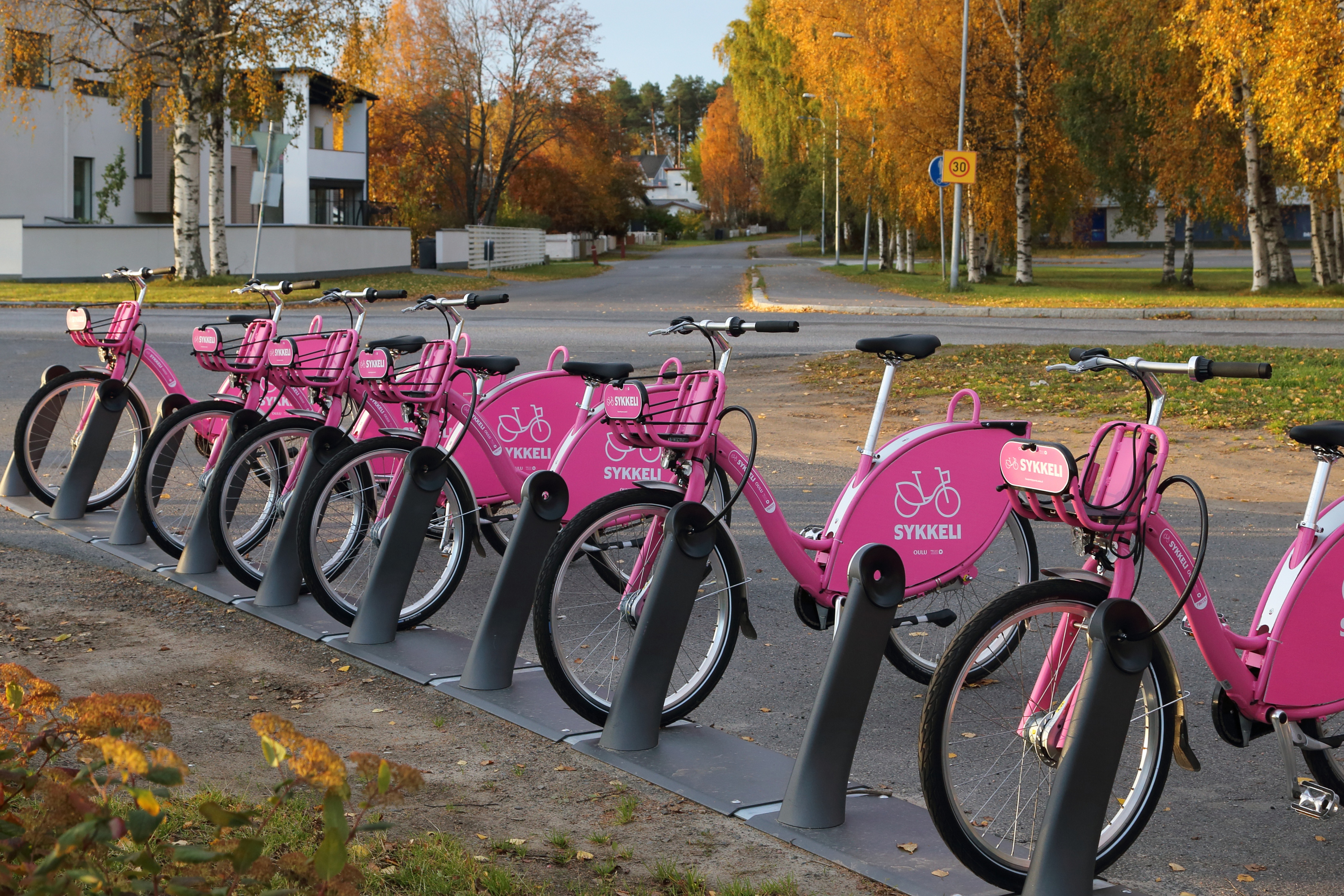 The Värtönranta station of the Sykkeli bikesharing system in Oulu.